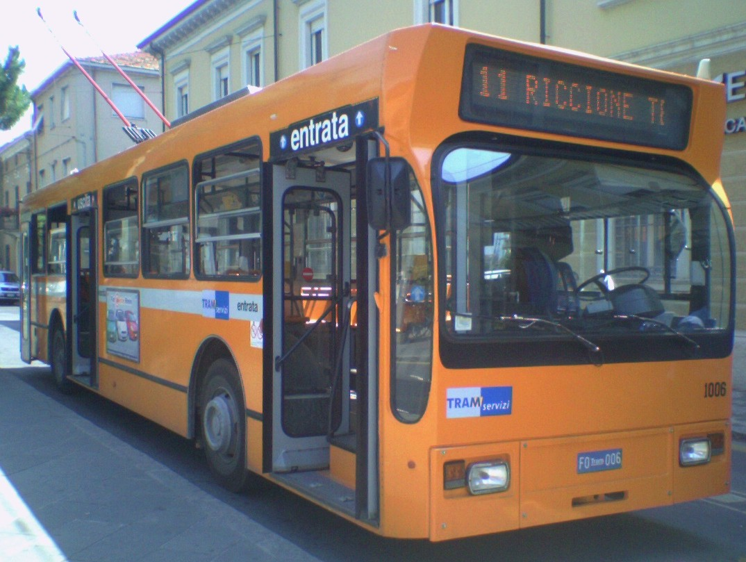 A trolleybus in Rimini, built by Volvo/Mauri (Volvo chassis, Mauri body). No. 1006 was delivered in 1979, the last of 17 such trolleybuses (1001-1017) built in 1976-78.